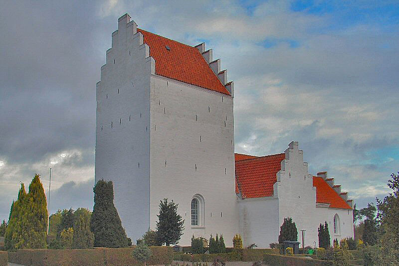 Church of Elling, situated appr. 6 km north of the danish town Frederikshavn